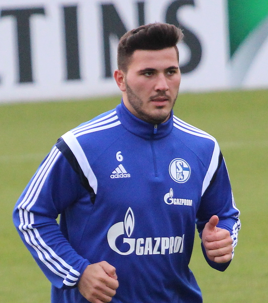 Sead Kolašinac in training with FC Schalke 04